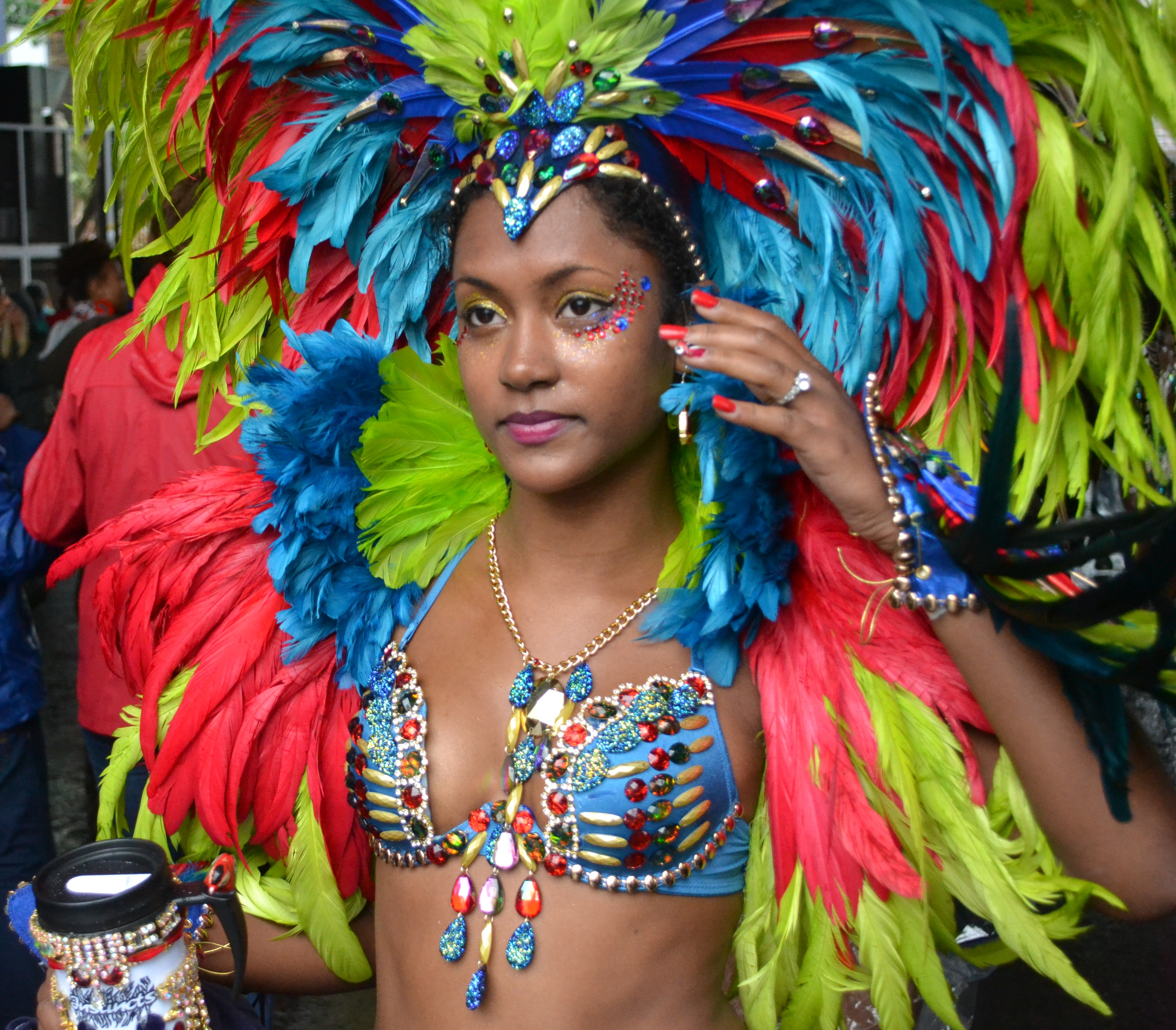 Notting Hill Carnival 2014, London, U.K.